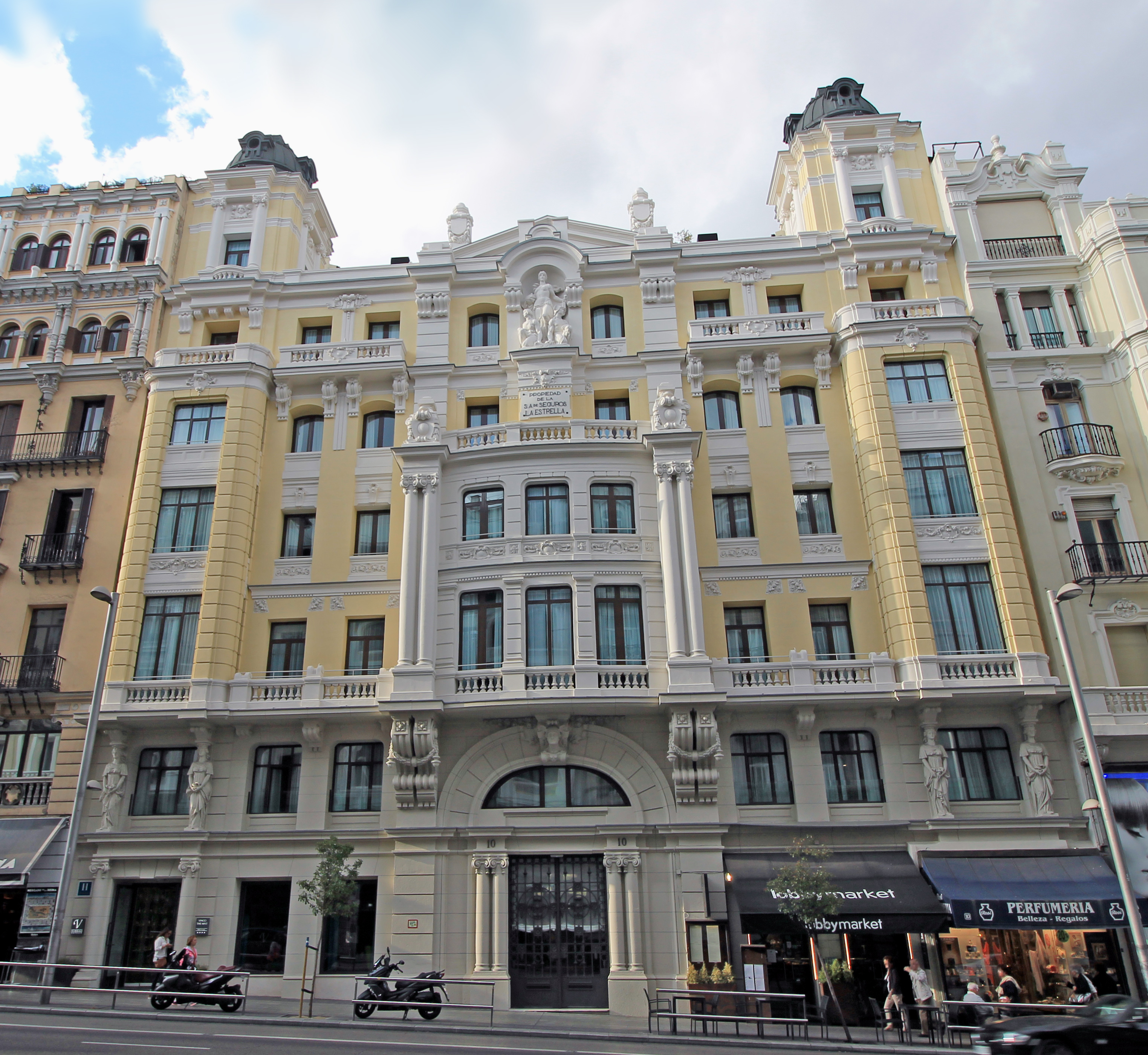 Façade of Seguros La Estrella building at 10 Gran Vía (an avenue) in Madrid (Spain).